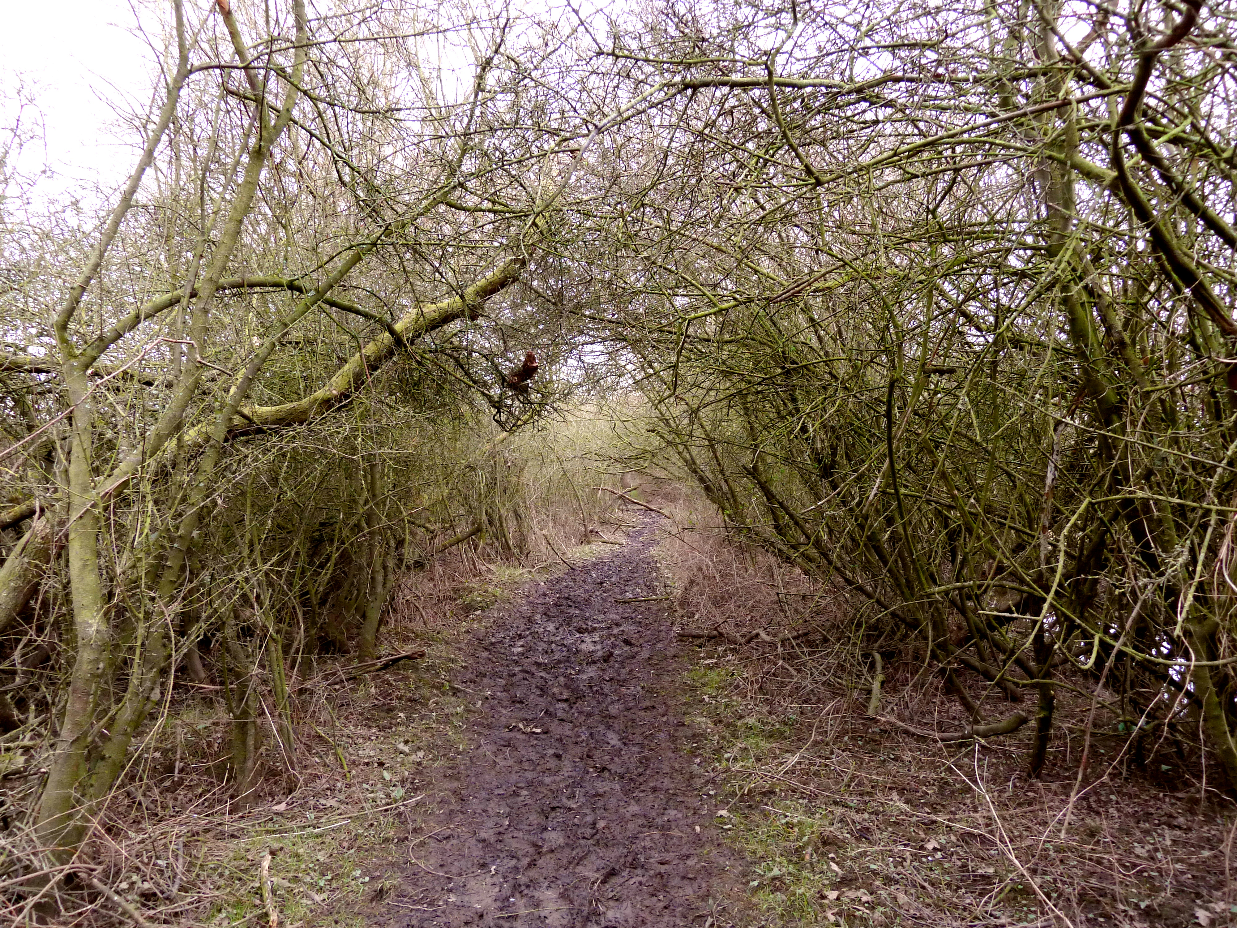 Bishop Monkton Ings, near Bishop Monkton village, North Yorkshire, England. This is a Site of Special Scientific Interest, containing a small area of deciduous woodland carr, most of the site's area being bog and fen. The whole site is waterlogged and there is no public access. It can be seen from a public footpath which remains muddy for most of the year. Showing Ripon Rowel Walk, public footpath.